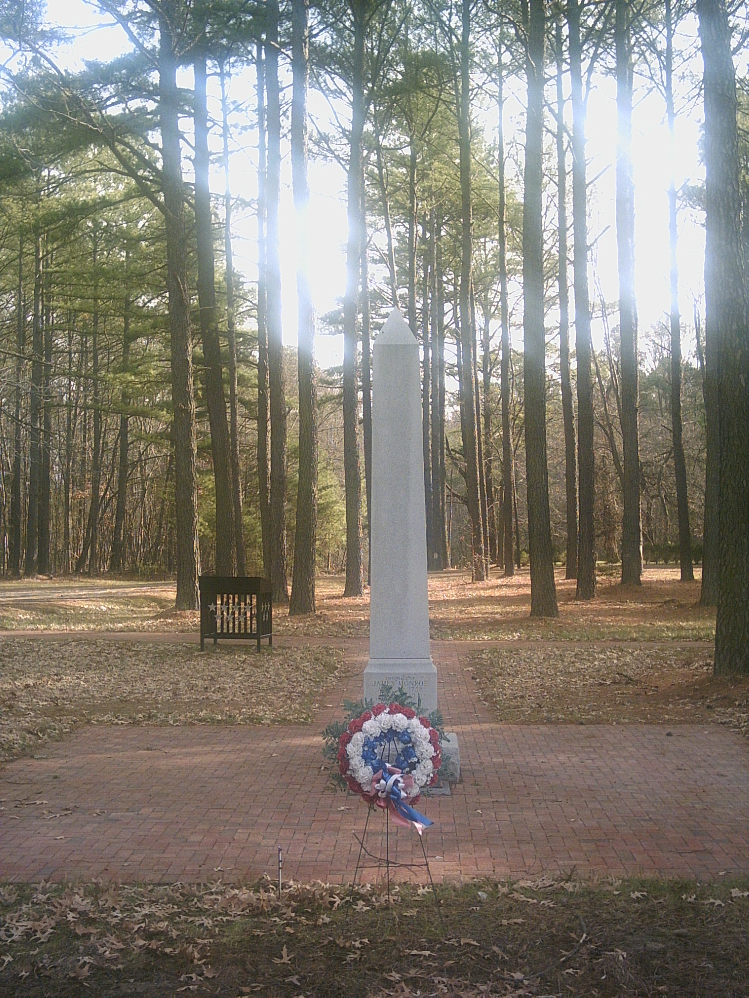 James Monroe homesite marker